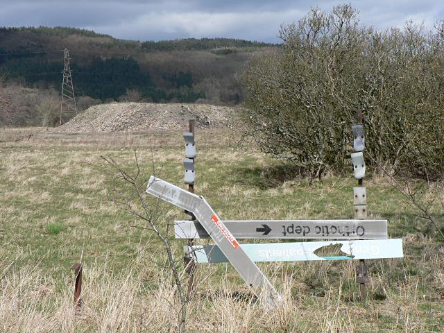 Site of Bridge of Earn Hospital This sign and some large piles of rubble are all that remain of the hospital. It was built in the war to take casualties from the invasion of Europe, and became an NHS hospital afterwards.